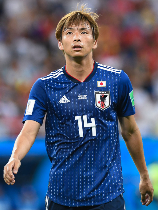 Japanese footballer Takashi Inui on 2 July 2018, during the 2018 FIFA World Cup Round of 16 match between Belgium and Japan.